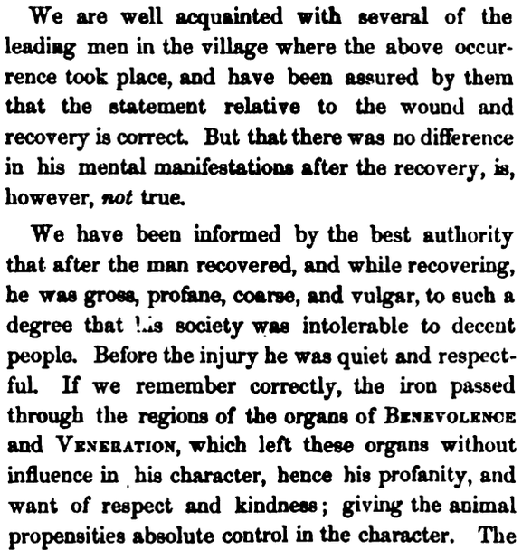 Except from item ("A Most Remarkable Case") regarding Phineas Gage in the American Phrenological Journal and Repository of Science, Literature, and General Intelligence vol. 13 n. 4 (April 1851), p. 89, col. 3